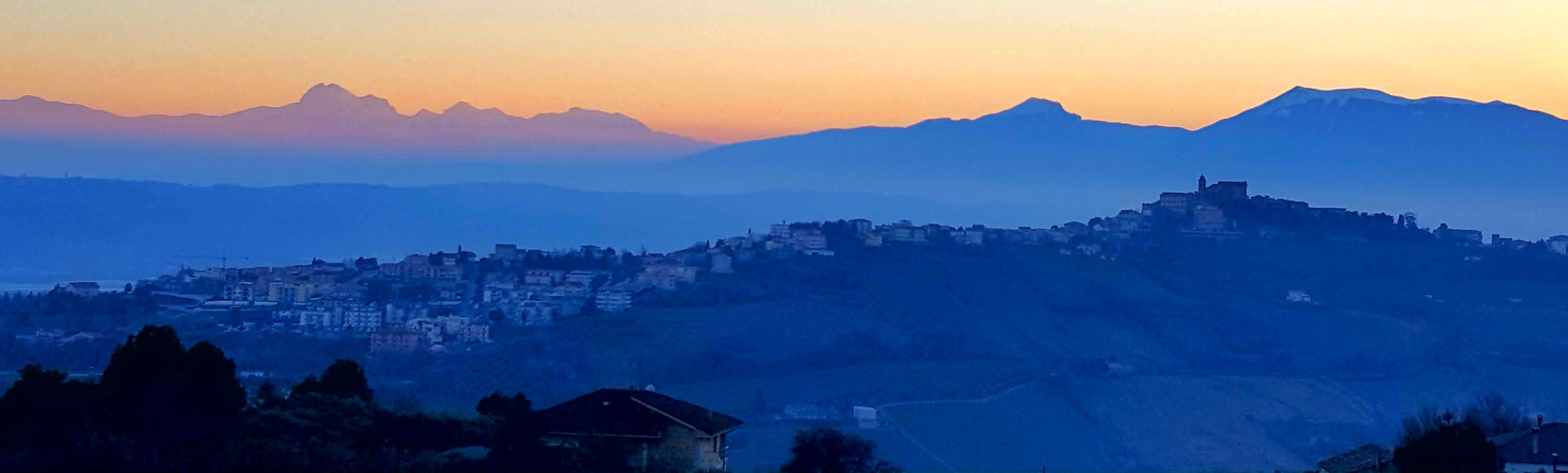 Monteprandone, in the background Monti della Laga and the massif of Gran Sasso